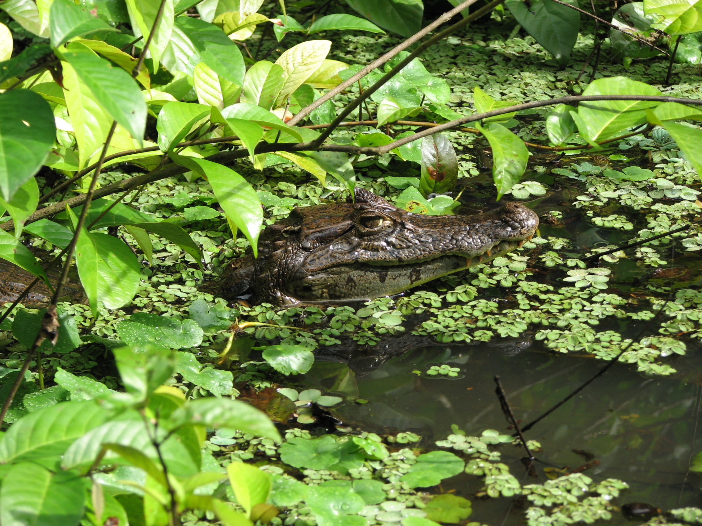 Spectacled Caiman in the Tortuguero National Park, Costa Rica